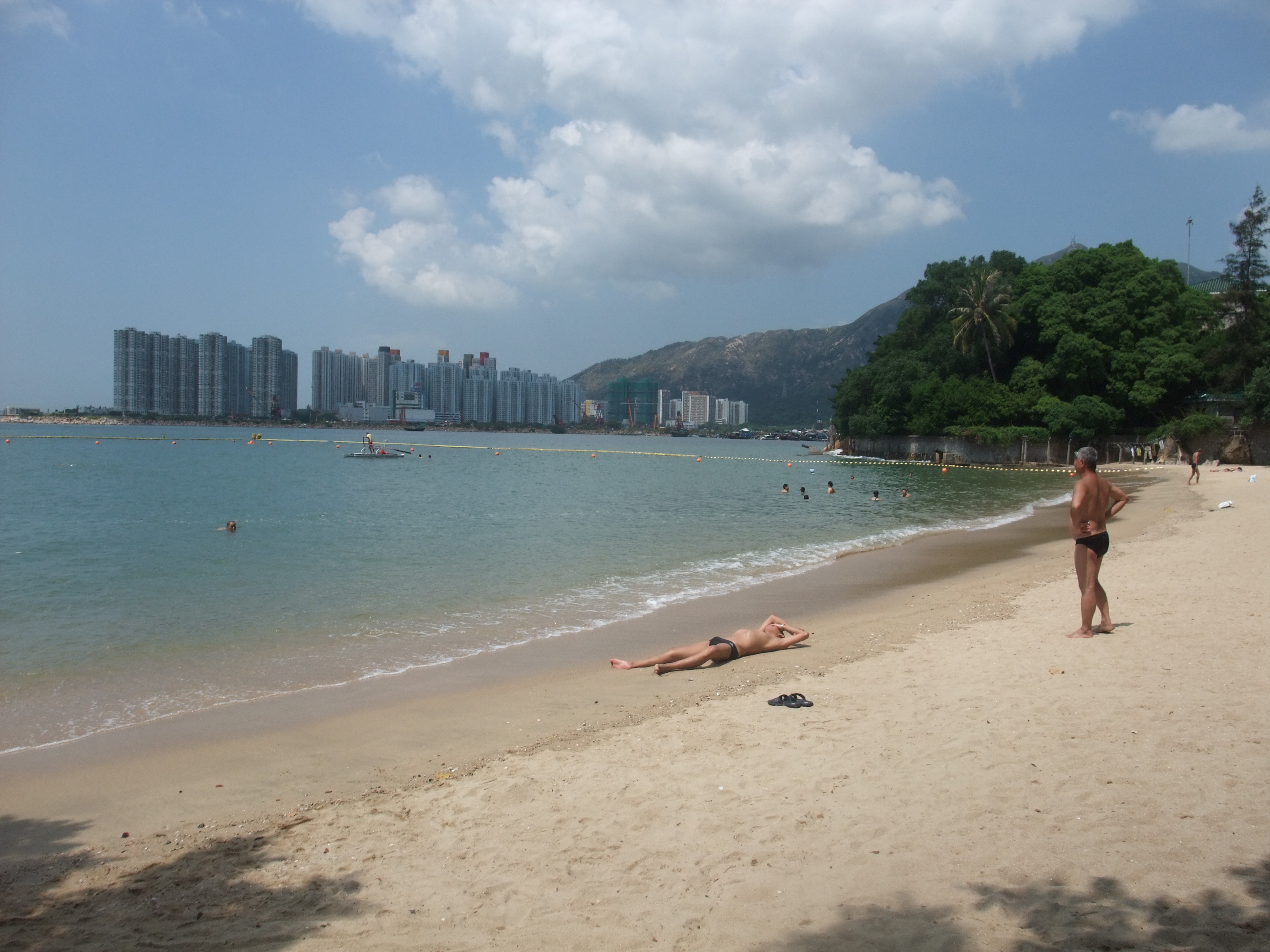 Photo of Kadoorie Beach